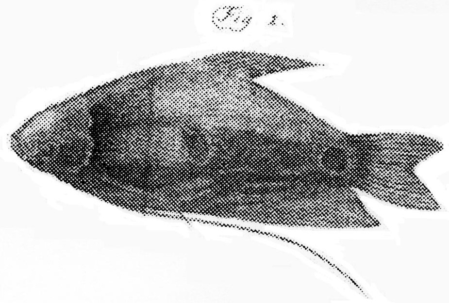 Trichogaster trichopterus, first despcription by Koelreuter, 1764